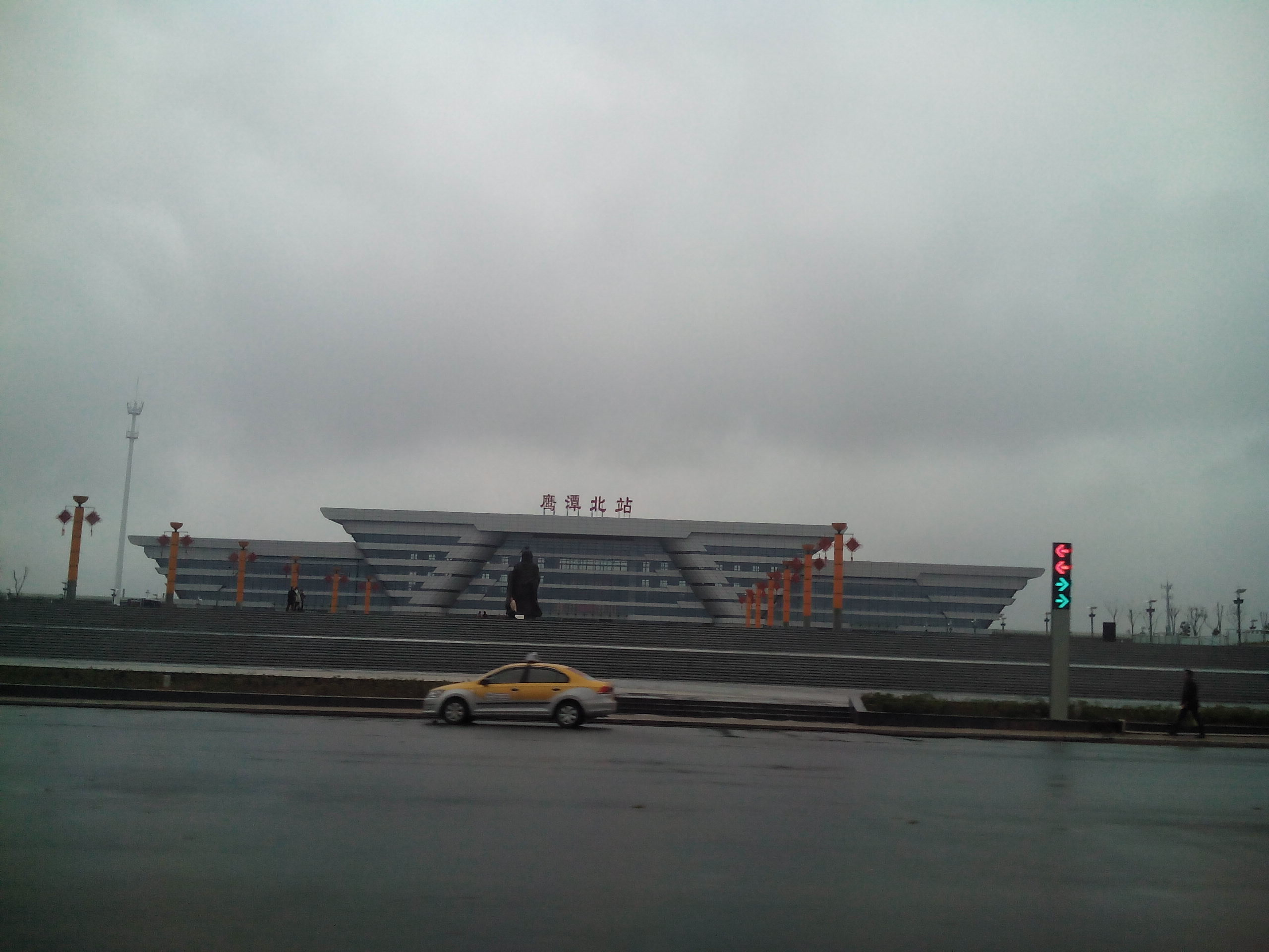 201502 Facade of Yingtanbei Railway Station